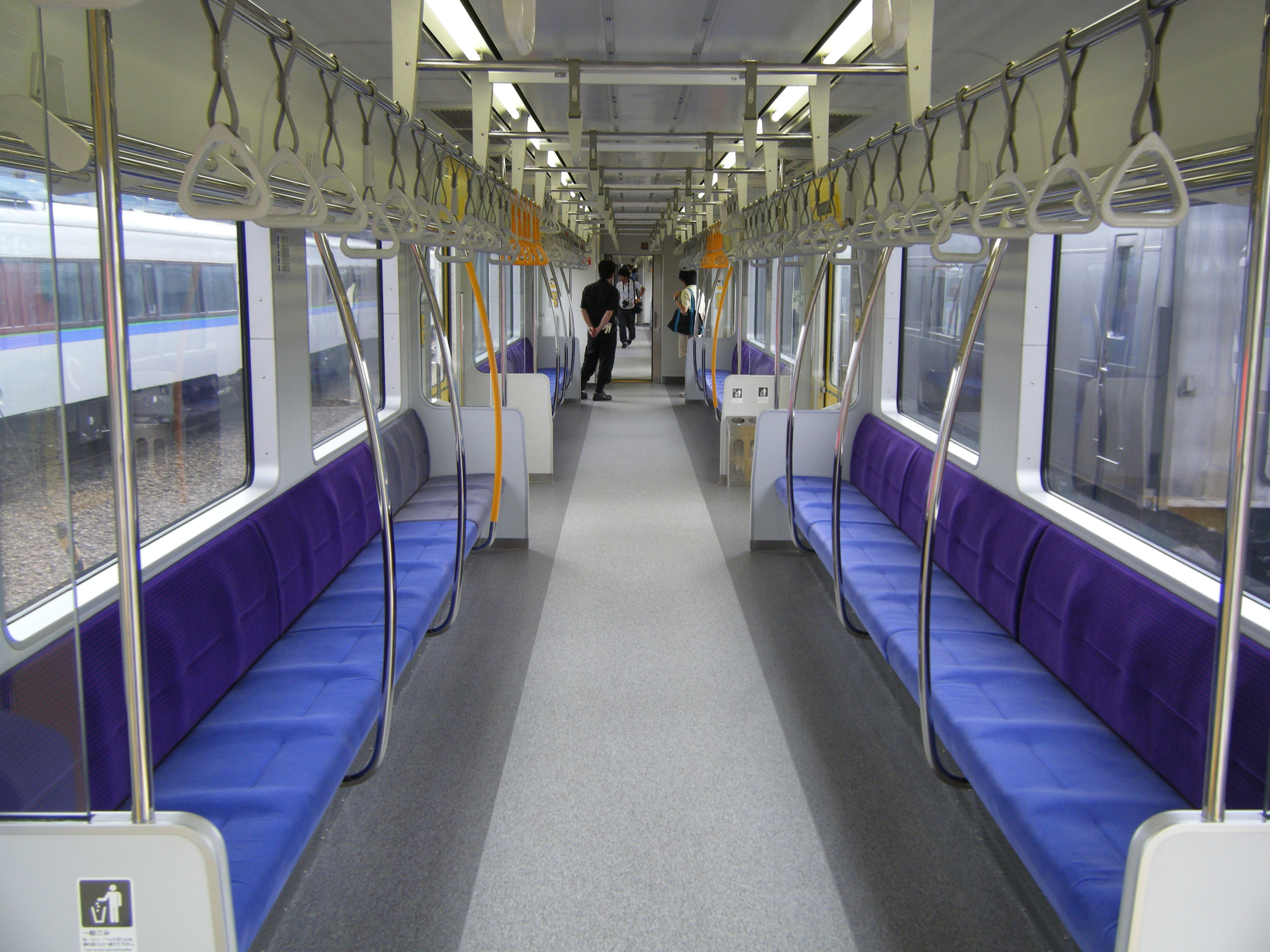 Interior view of JR Hokkaido 735 series EMU set A-101 on display at Sapporo Depot Open Day